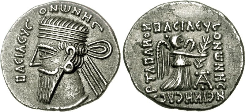 Coin of Vonones I.